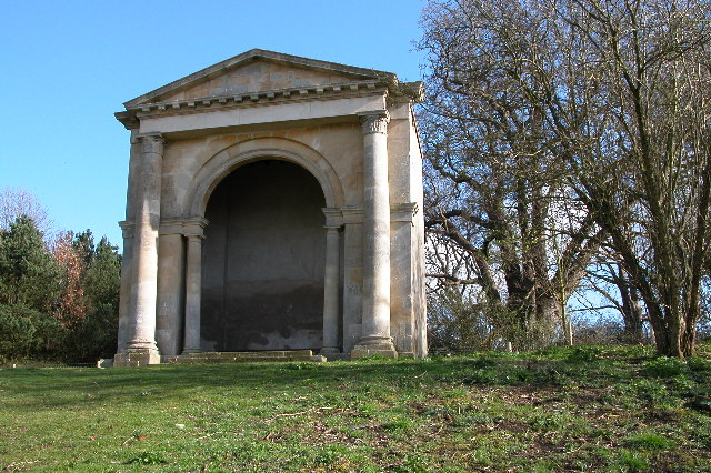 Croome Landscape Park. The Park Seat, also known as the Owl’s Nest, was designed by Robert Adams and built between 1770-2. It stands in Croome Landscape Park at the southern end of Croome River. The park in now in the care of the National Trust.